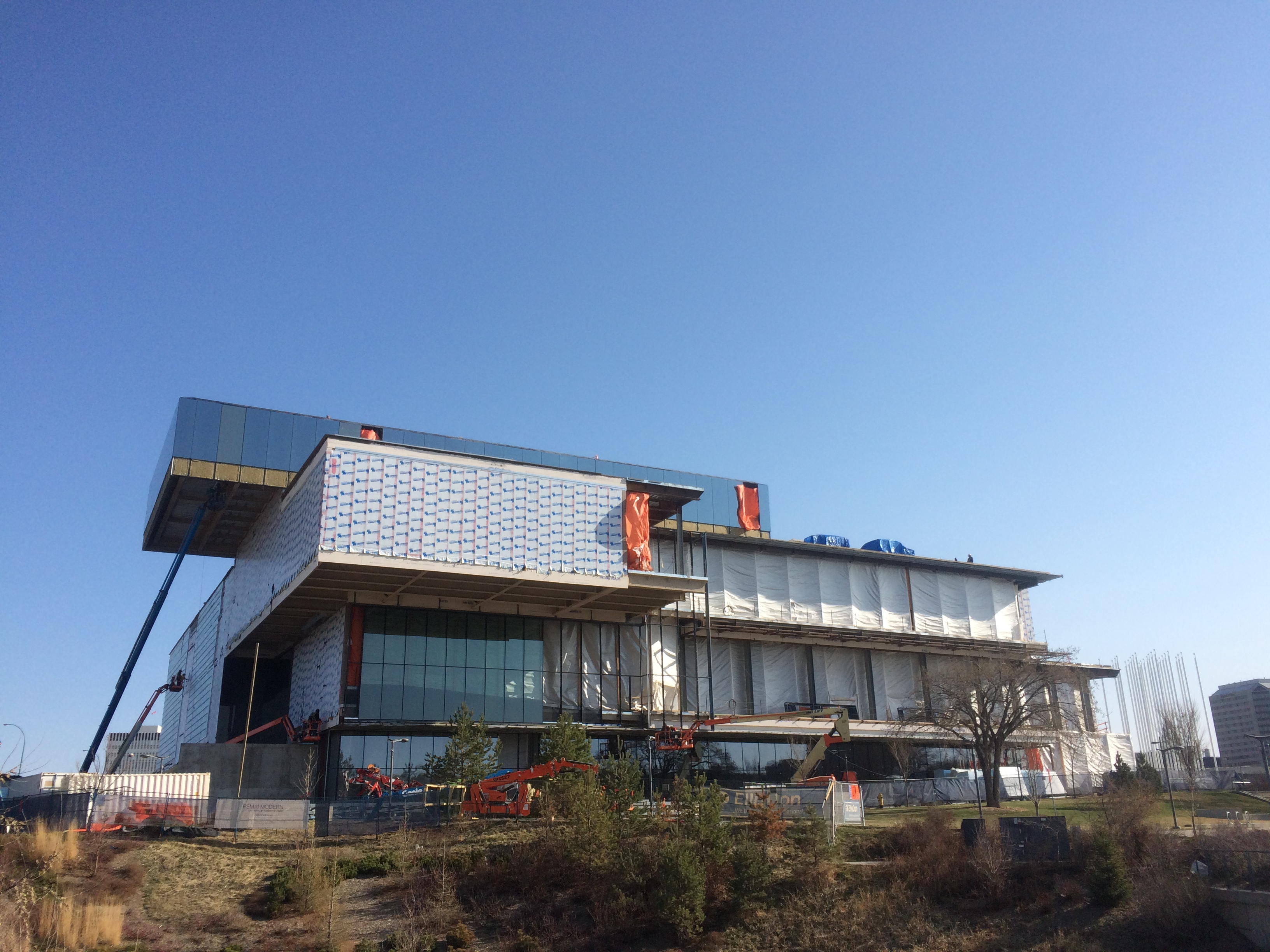 Remai Modern Art Gallery of Saskatchewan under construction in Saskatoon, Saskatchewan.